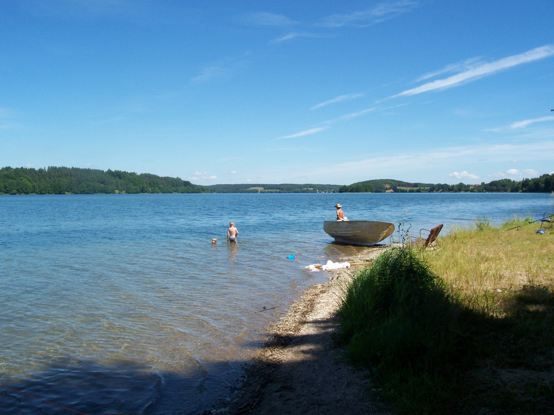 Poland, Raduńskie Górne Lake, Kartuzy County